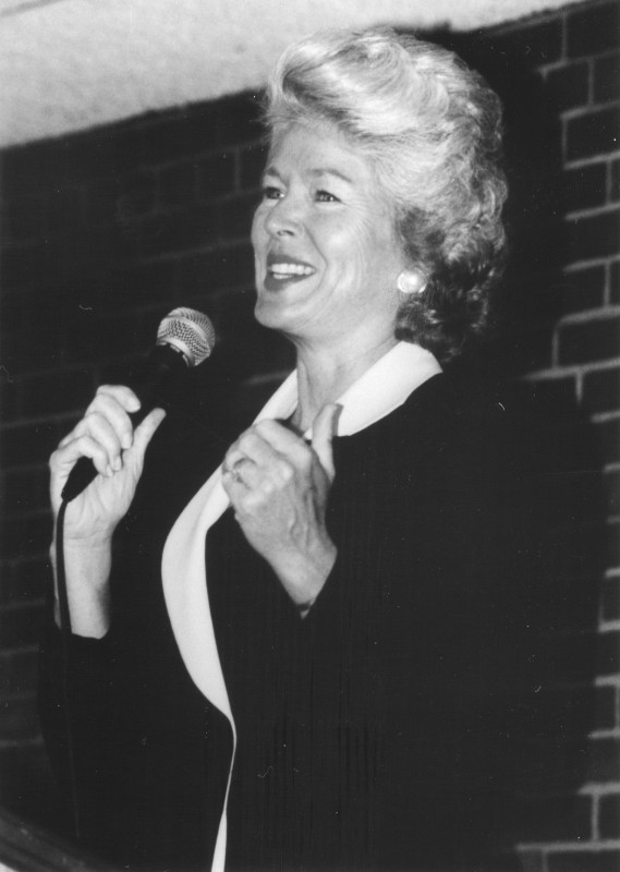 Marilyn Van Derbur was the first woman to be awarded the 'Outstanding Woman Speaker in America' by the National Speakers Association.